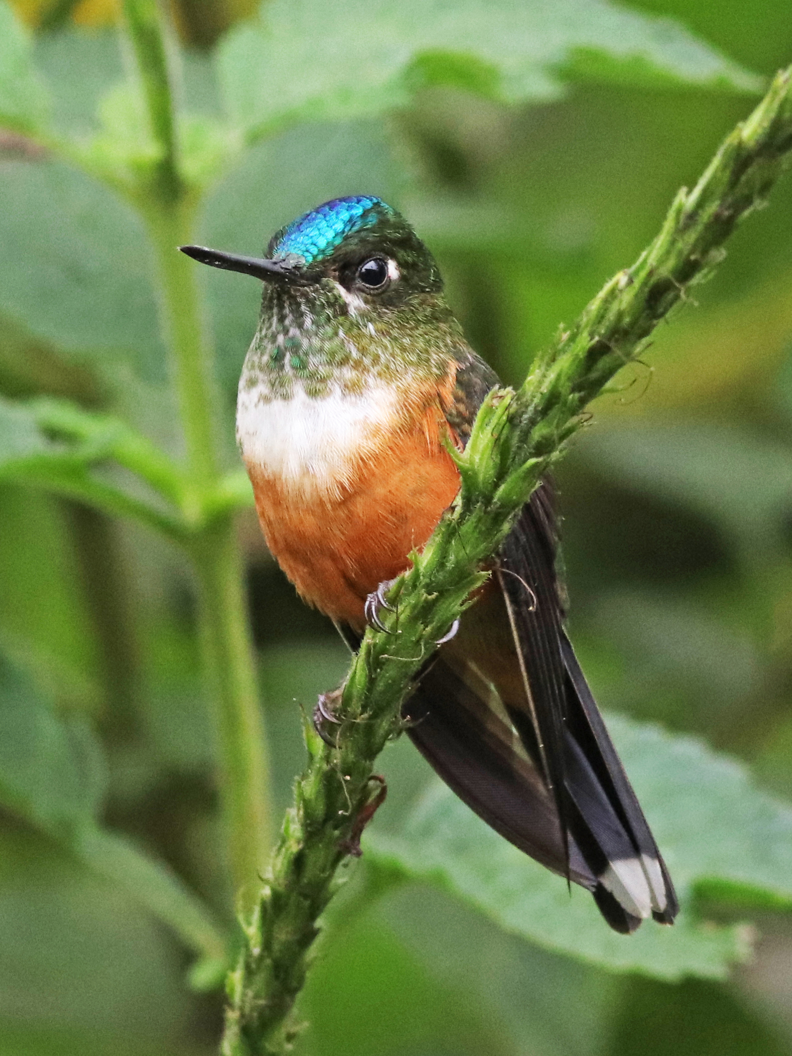 Female Violet-tailed Sylph resting on a branch near Milpe, Ecuador